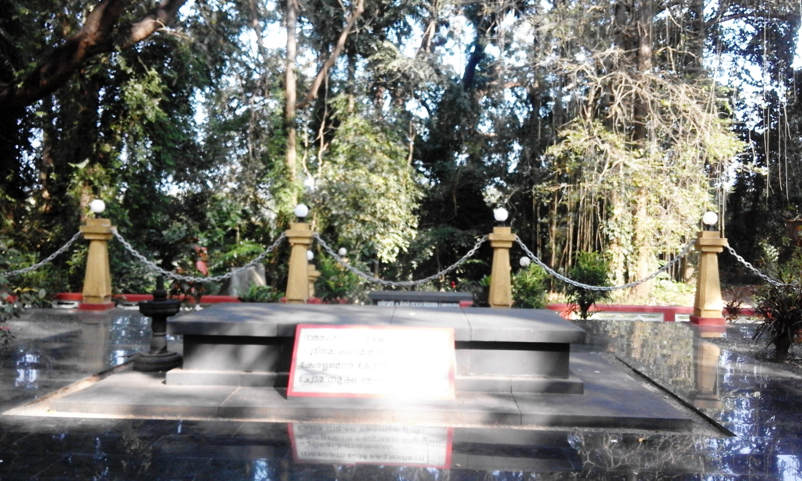 Nilambur Railway Station, Malappuram District, Kerala,India.